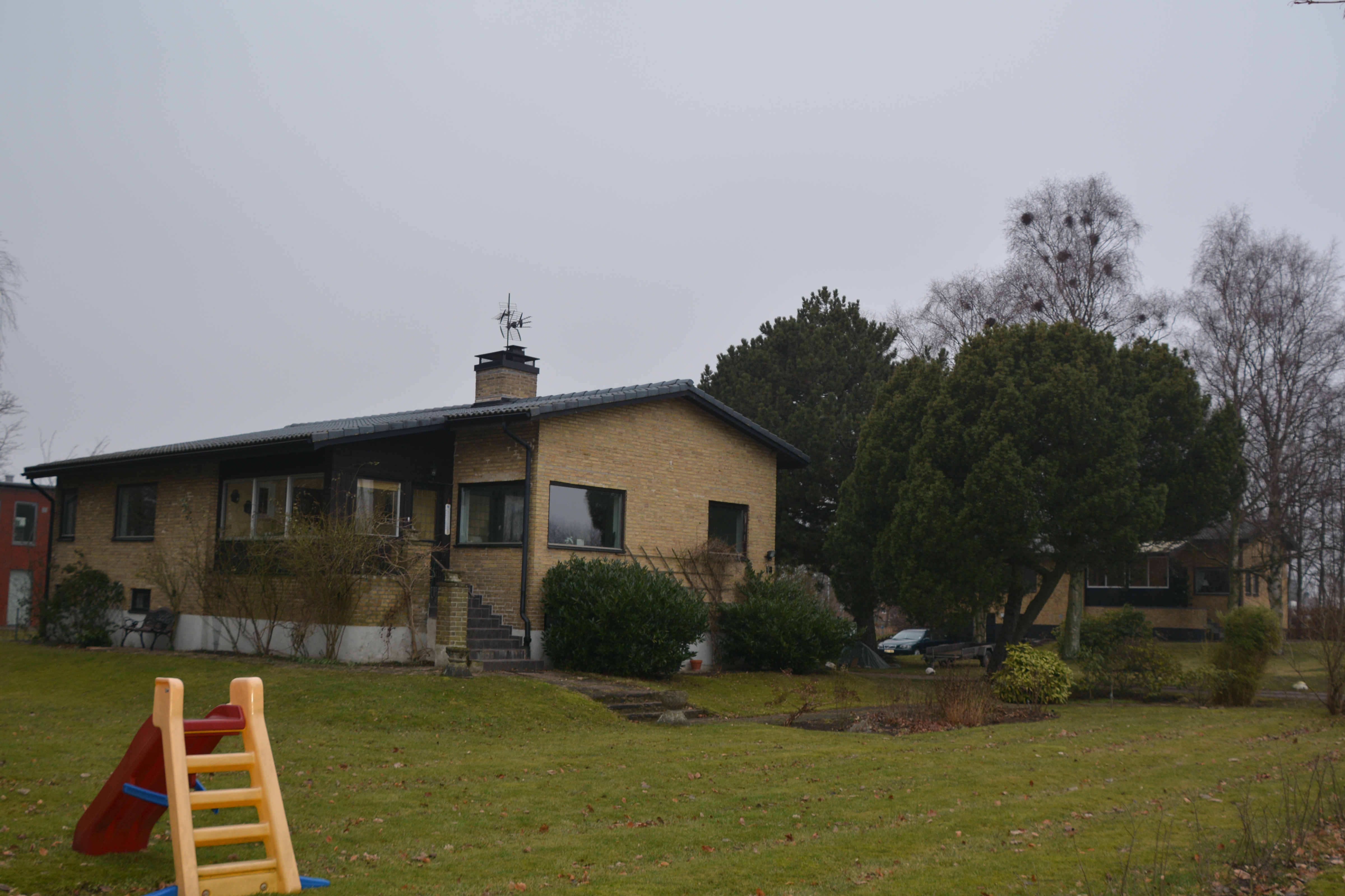 Villor vid Kävlingevägen 53 och 55 i Lund